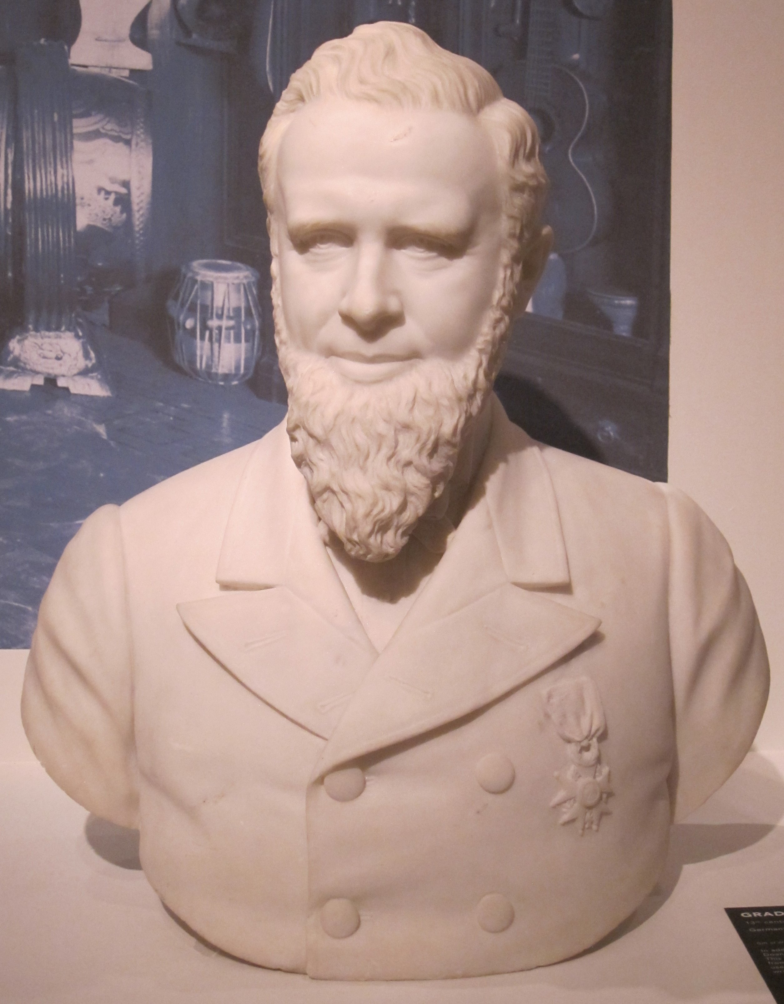 Marble bust of William Howard Doane, c. 1890s, American school, Cincinnati Art Museum